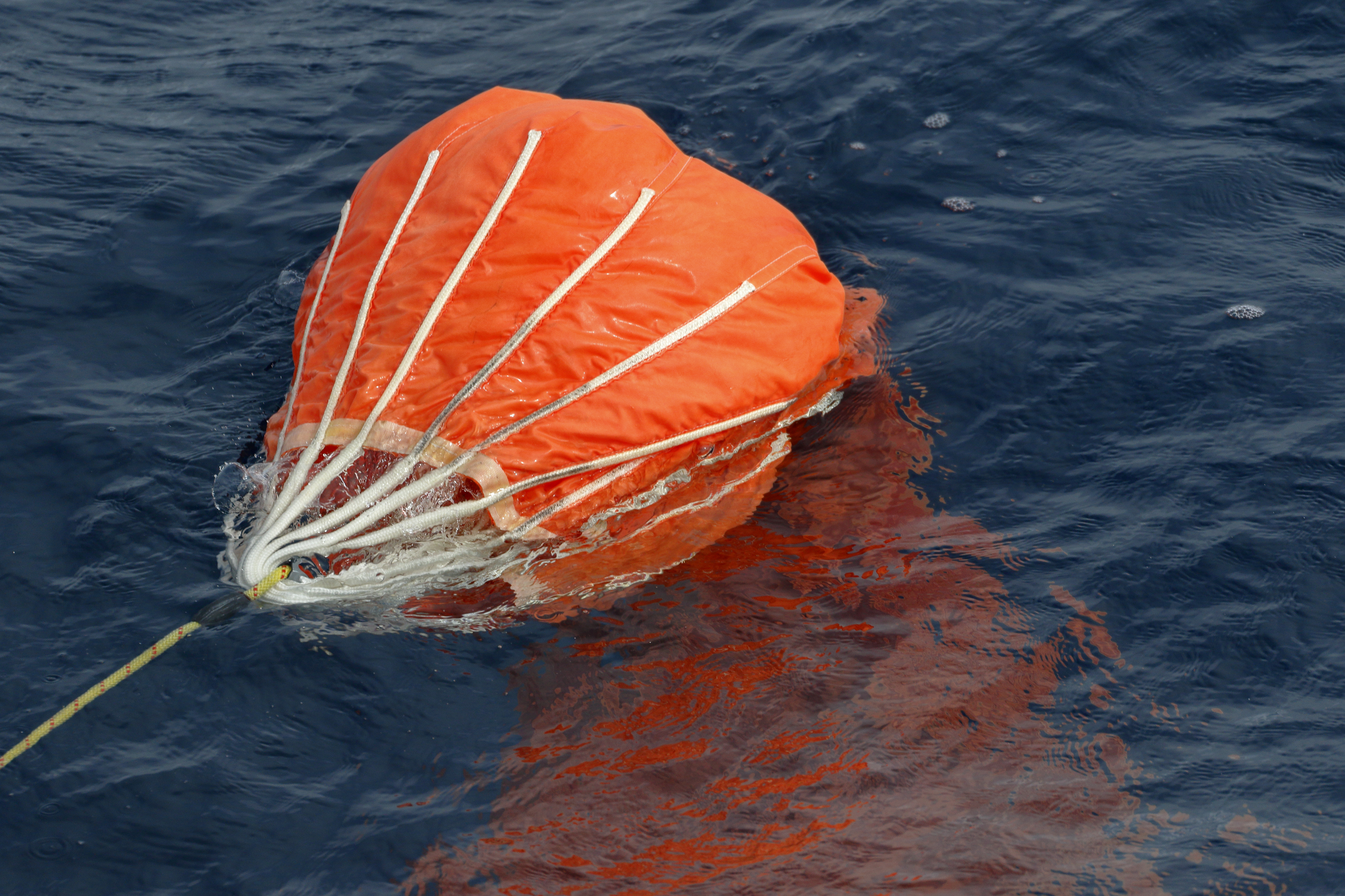 Port Fairy Pelagic. Victoria.